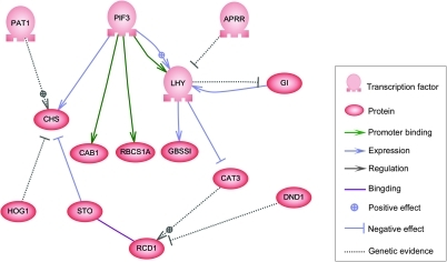 Gene Network of Differentially Expressed Genes in Hybrid Rice by Pathway Studio Analysis